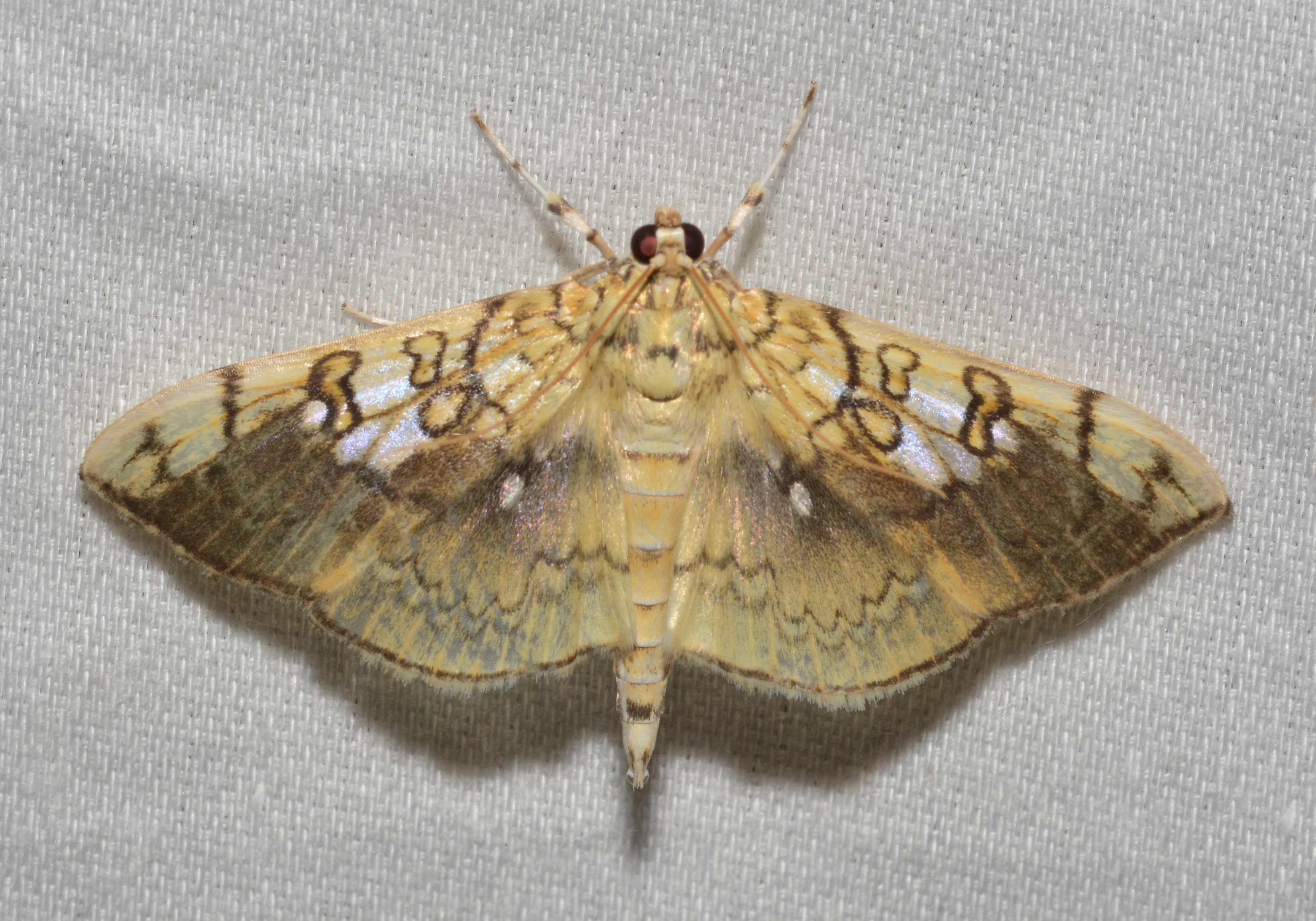 St. Francois State Park St. Francois County Bonne Terre Missouri 8/11/18